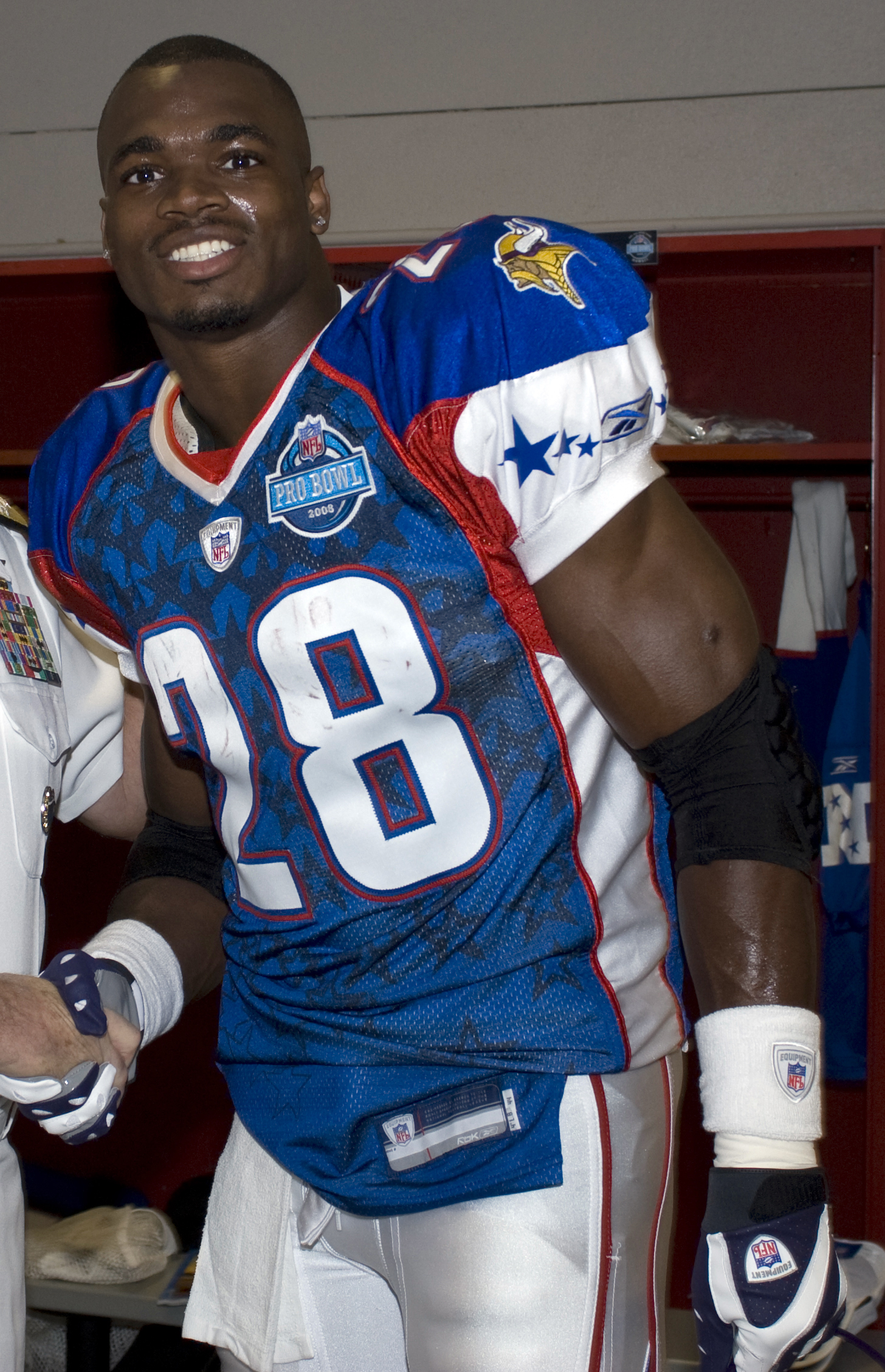 U.S. Navy Adm. Timothy J. Keating, left, commander, U.S. Pacific Command, poses for a picture with Adrian L. Peterson, a professional football player with the Minnesota Vikings, at Aloha Stadium in Honolulu, Hawaii, Feb. 10, 2008, during the pre-game ceremonies for the National Football League's 2008 Pro Bowl. The Pro Bowl brings together the top players in the National and American Football Conferences. VIRIN: 080210-N-8623G-008